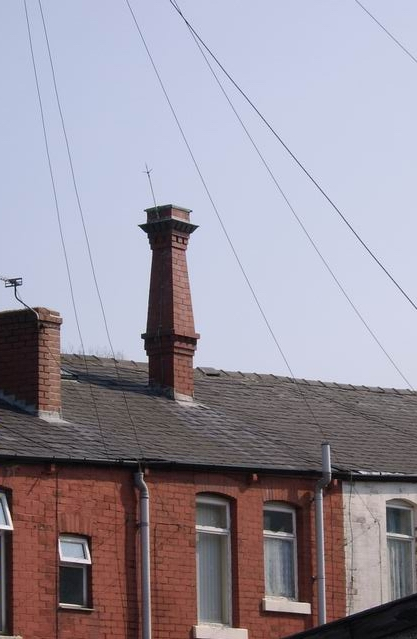 Fred's Chimney This chimney was built by the late Fred Dibnah on the house where he once lived with his parents.